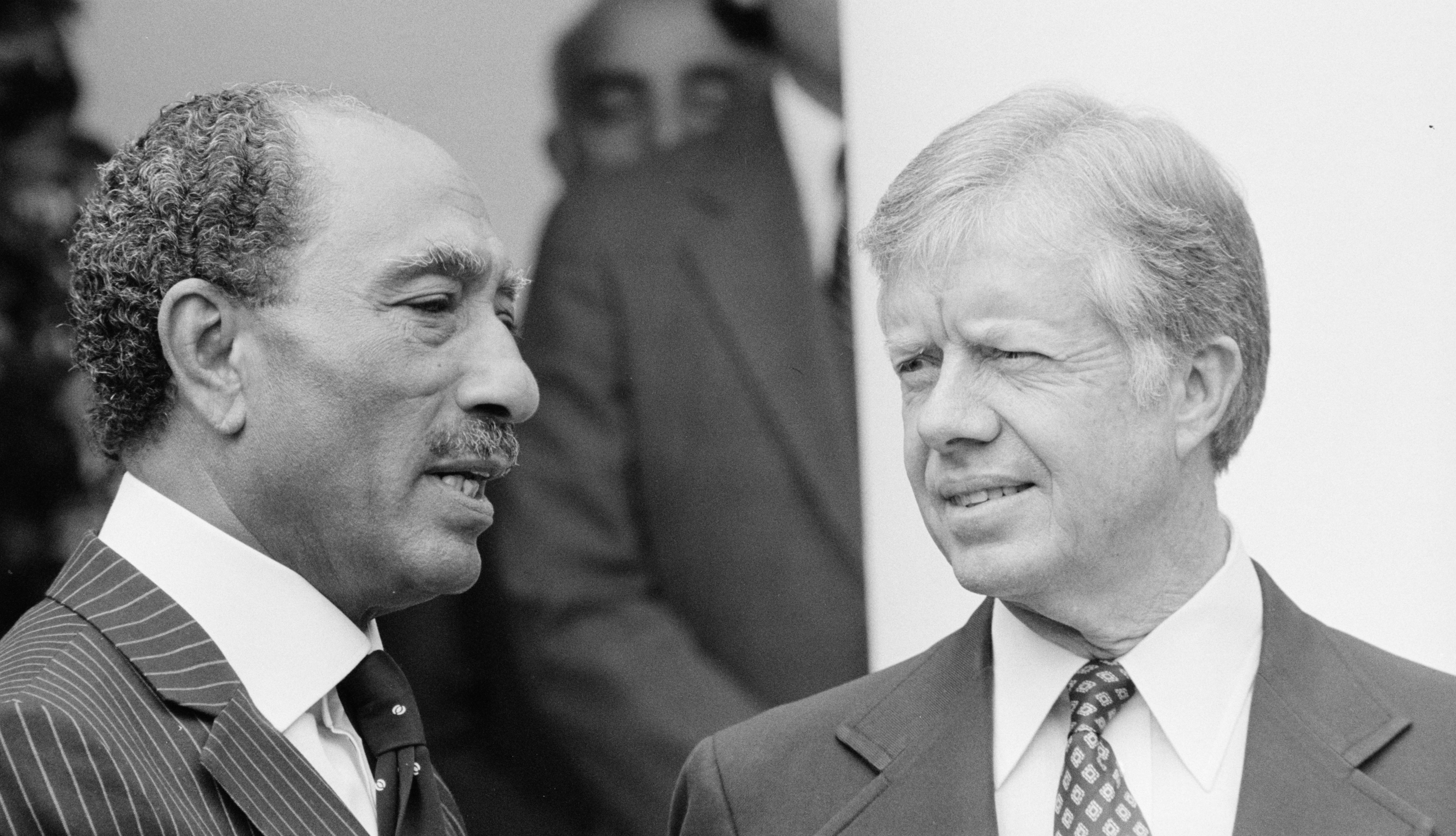 Library of Congress description: "President Jimmy Carter welcomes Egyptian President Anwar Sadat at the White House, Washington, D.C."